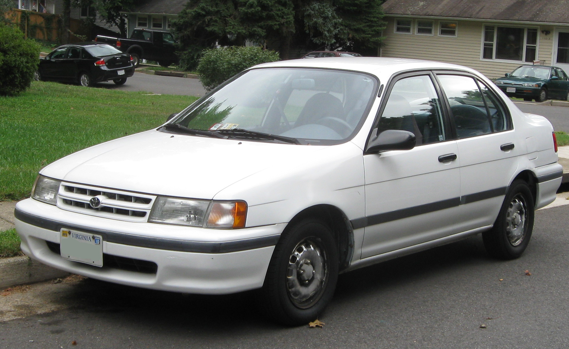 1993-1994 Toyota Tercel DX sedan photographed in Fairfax, Virginia, USA.